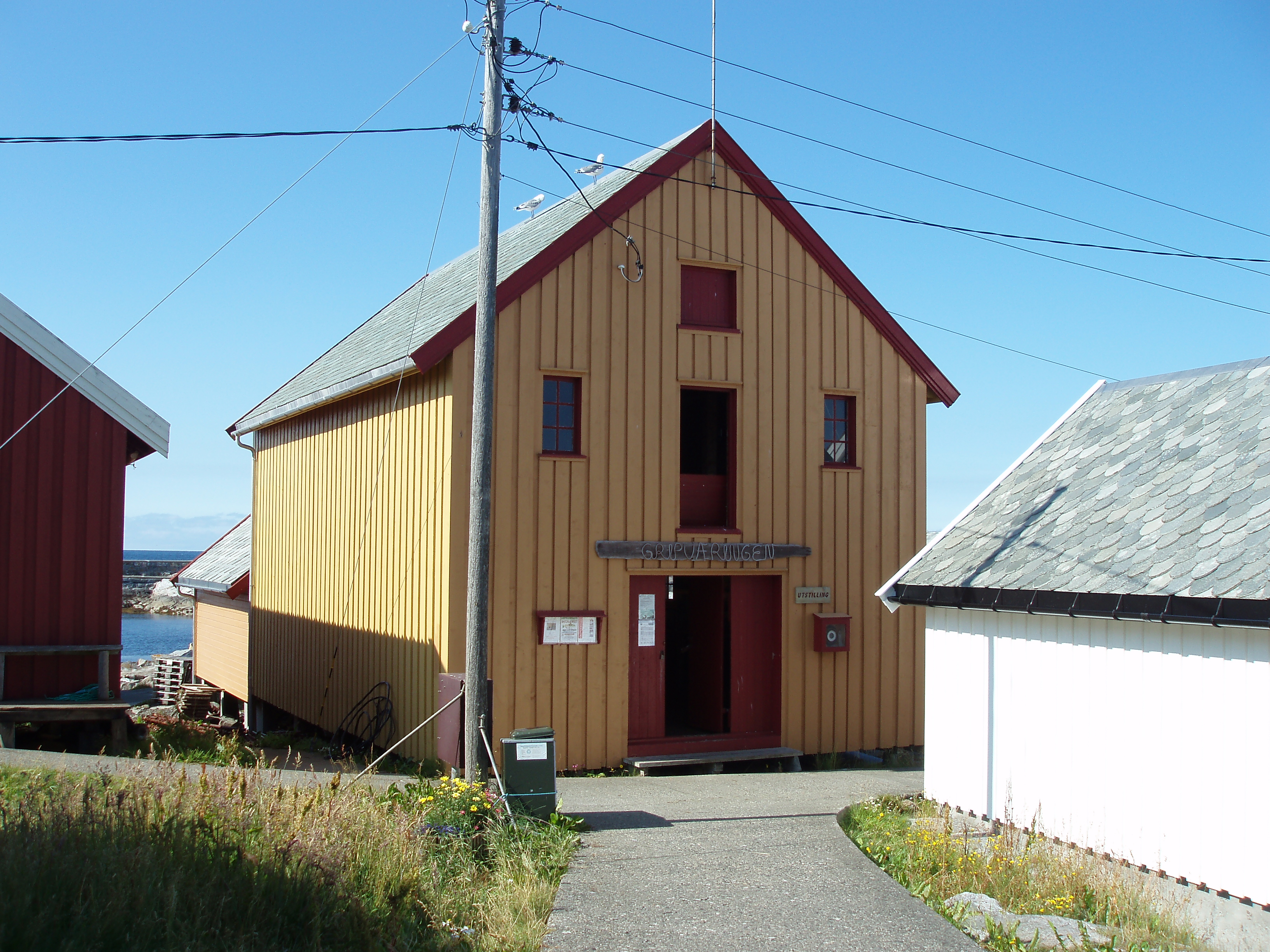 Gripværingen on the island Grip in Kristiansund municipality in Møre og Romsdal county in Norway. This building can hold small exhibitions and concerts.